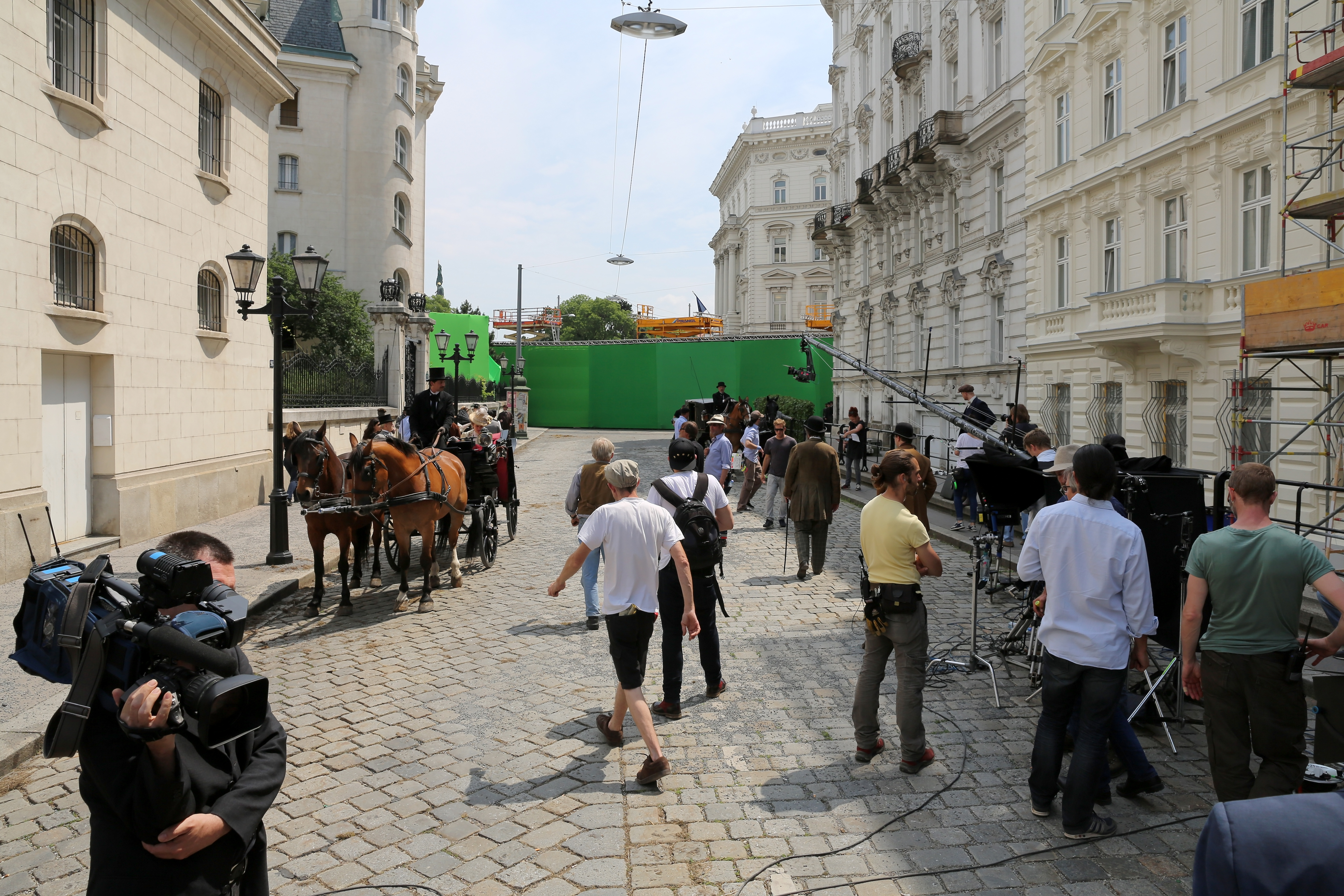 Filming of the movie Madame Nobel in and around the Embassy of France in Vienna (Vienna, Austria).